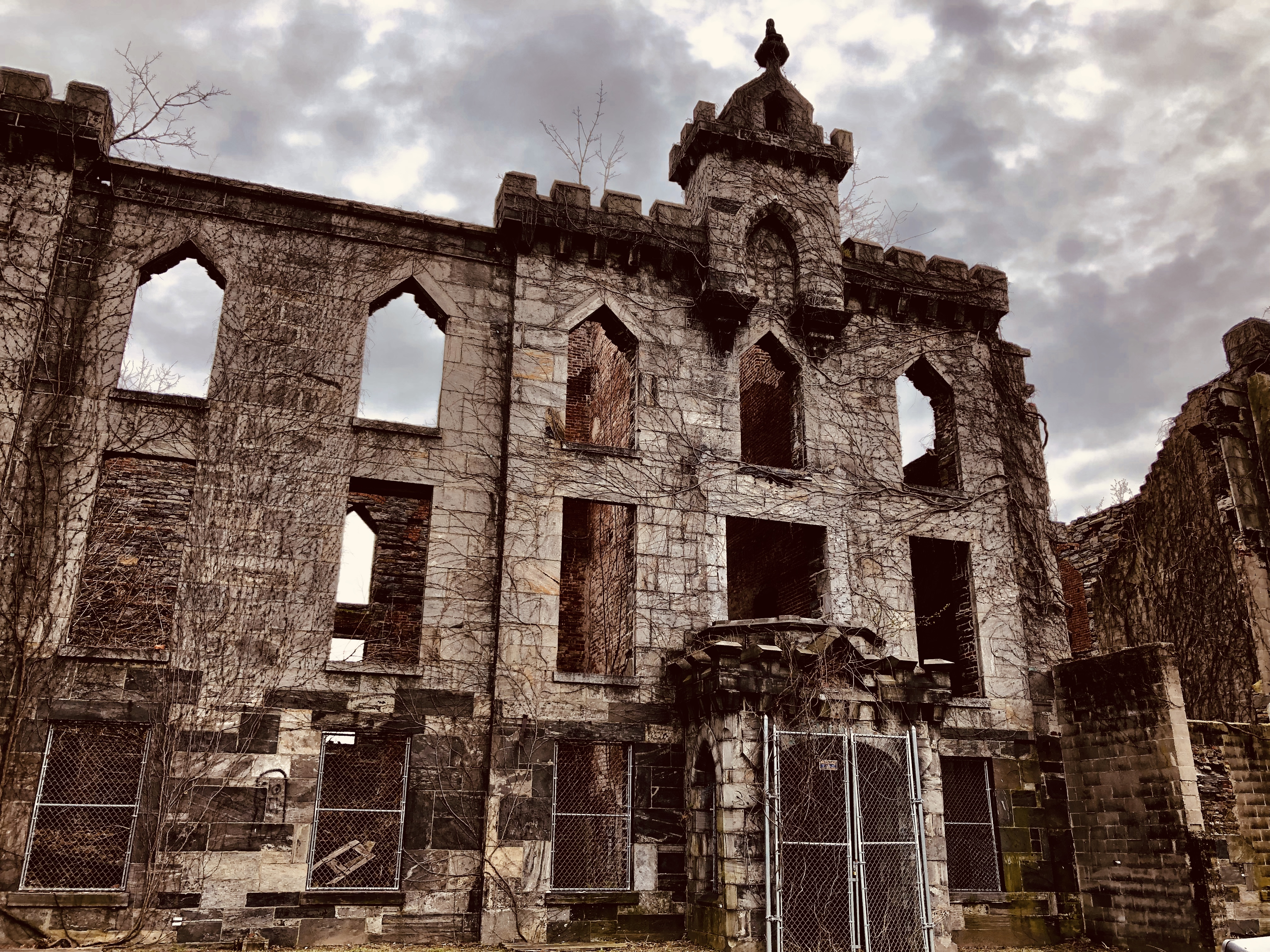 The Renwick Smallpox Hospital on Roosevelt Island in April 2019. No filters were used, just natural lighting of the sun